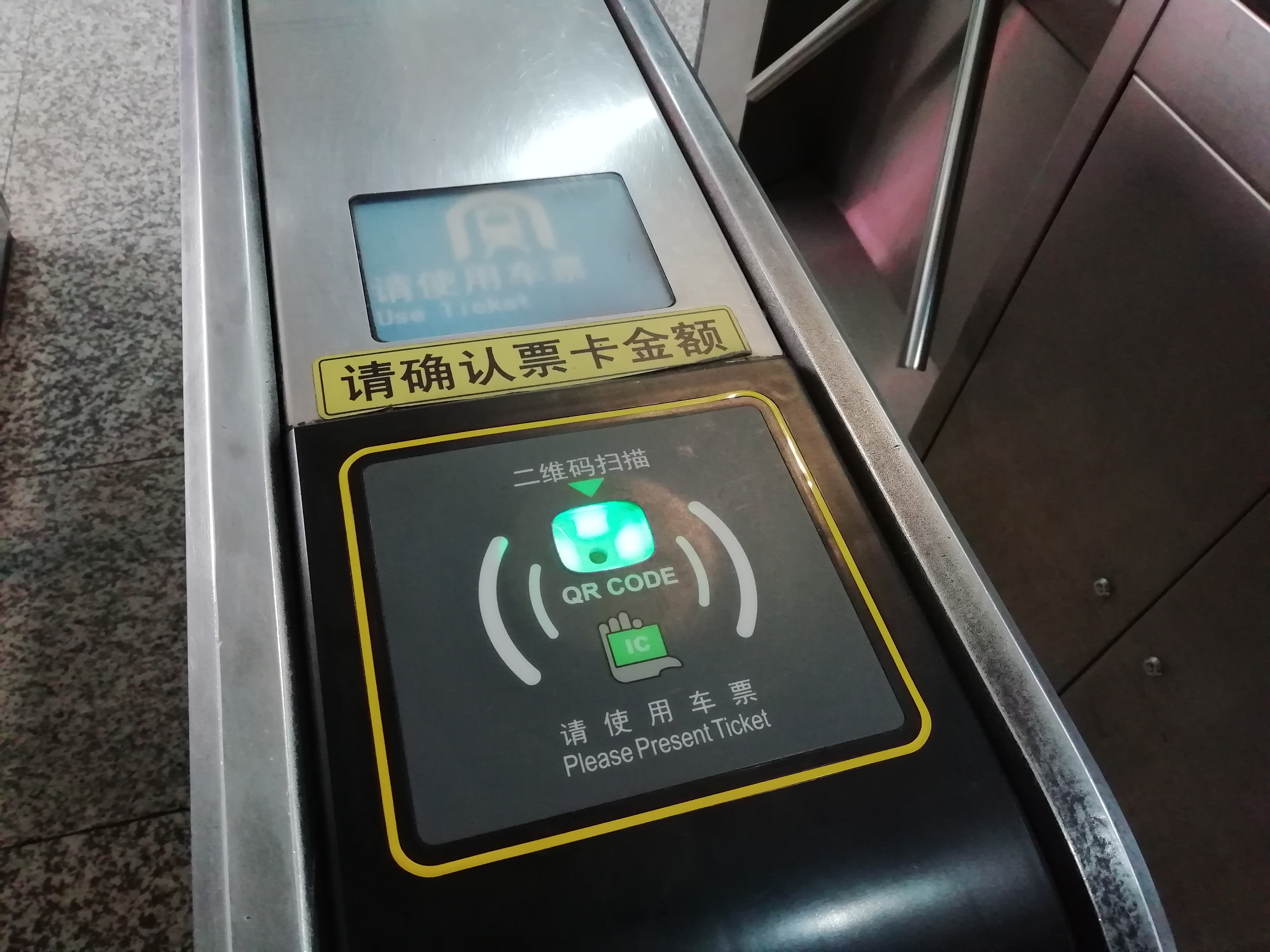 QR Code Scanner equipped with a turnstile, which taken in Songhong Road Station. Passengers can swipe the QR Code to take the metro.